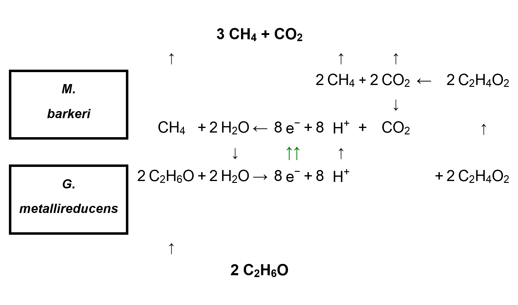 Schematic representation of stoichiometric ratios. Conversion of ethanol (C2H6O) to methane (CH4) and carbon dioxide (CO2) by Geobacter metallireducens and Methanosarcina barkeri. G. metallireducens produces acetate (C2H4O2), which is consumed by M. barkeri. The gases methane (CH4) and carbon dioxide (CO2) are produced. The horizontal arrows (→ and ←) show the direction of chemical reactions. Diffusion is represented by simple vertical arrows (↑ and ↓, from higher to lower concentration) and DIET is shown by one pair of vertical arrows (↑↑, direct interspecies electron transfer). The base of knowledge is Rotaru et al. 2014, PMID 24837373, PMC 4148795 (free text)